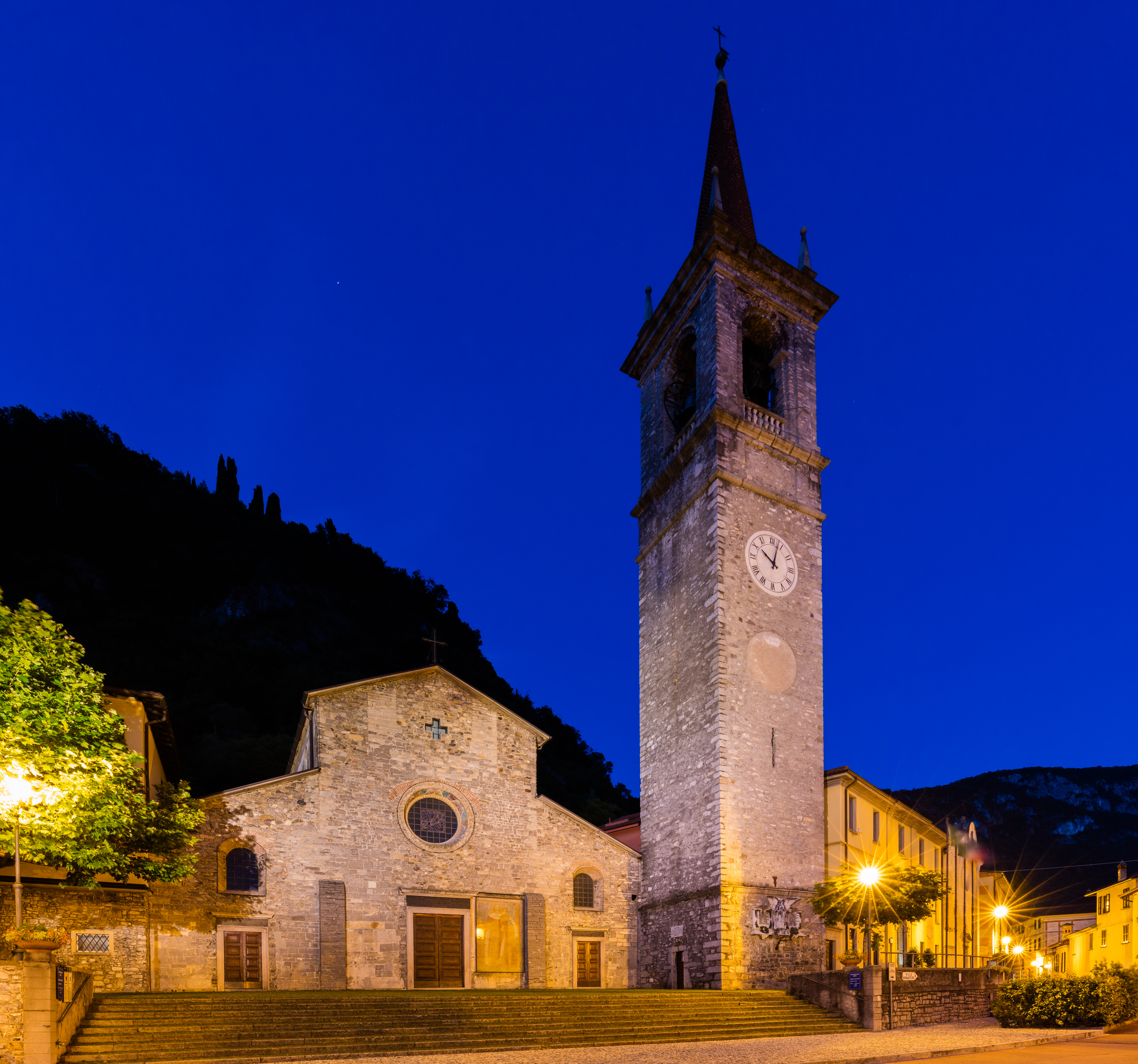 St George Church, Varenna, Italy This is a photo of a monument which is part of cultural heritage of Italy.